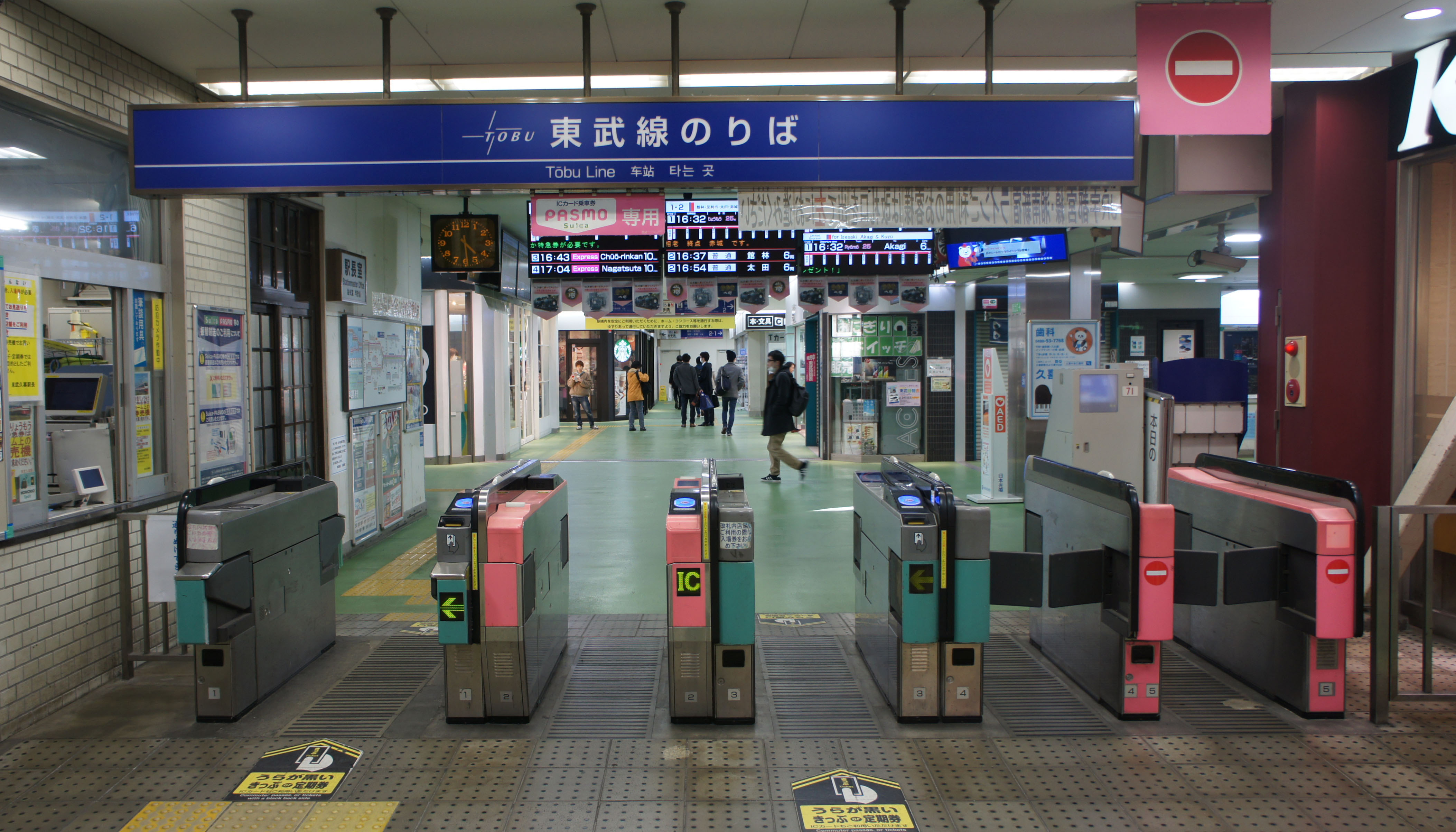 Gates of Tobu Isesaki-Line Kuki Station Sony NEX-3